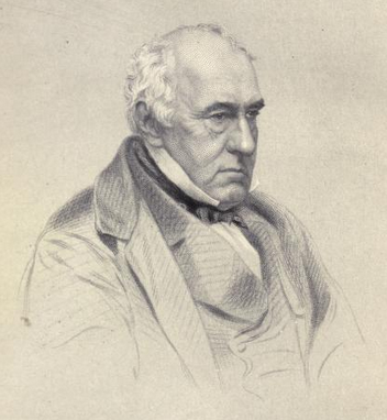 Engraving of Charles Greville by Joseph Brown, after a photograph by J.E. Mayall.